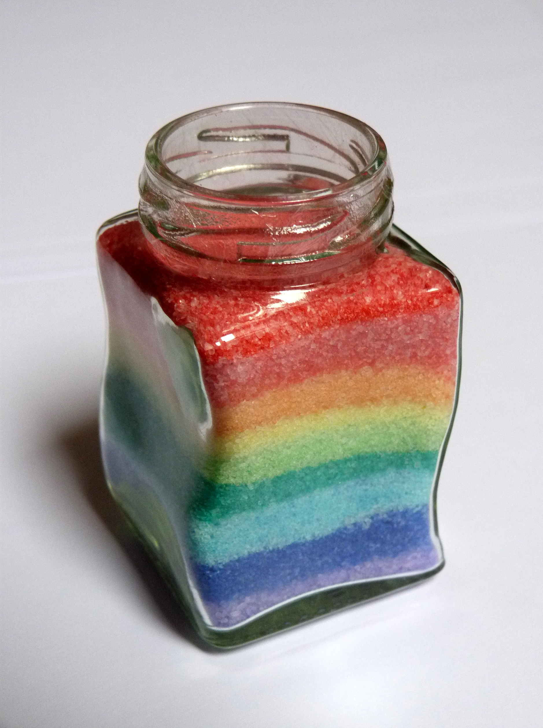 Colored salt in a glass jar. This is a popular craft made by young children in school to be brought home to the parents.